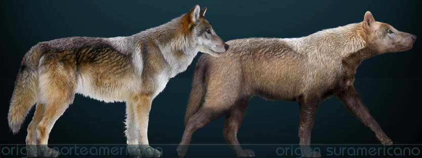 Reconstruction of Canis dirus with two possible aspects according to its probable geographic origin: South-American or North American. Because there is some evidence to suggest that the Dire Wolf may have arisen from the northern Canis ambrusteri or a South American canid.